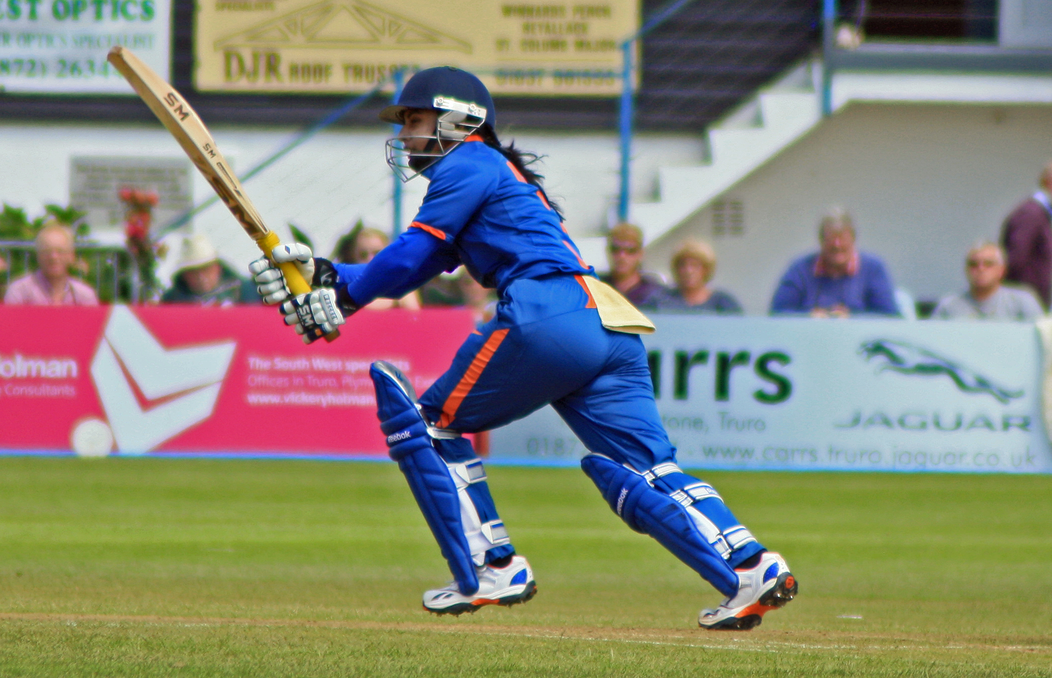 Mithali Raj batting for India women against England in Truro in 2012.